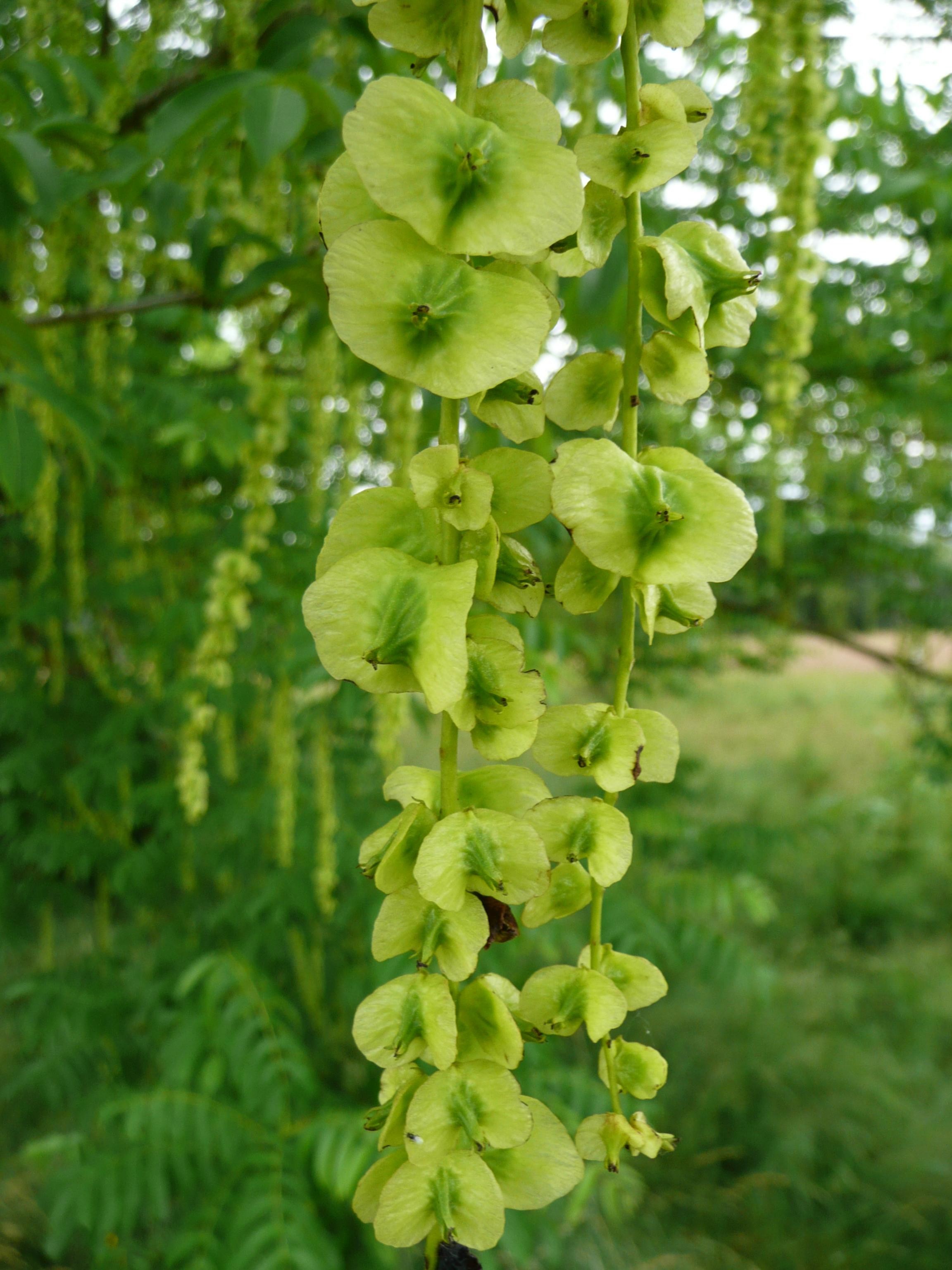 Pterocarya fraxinifolia in the Arboretum de Chèvreloup in Rocquencourt Map: 48° 49' 49" N 2° 06' 42" E